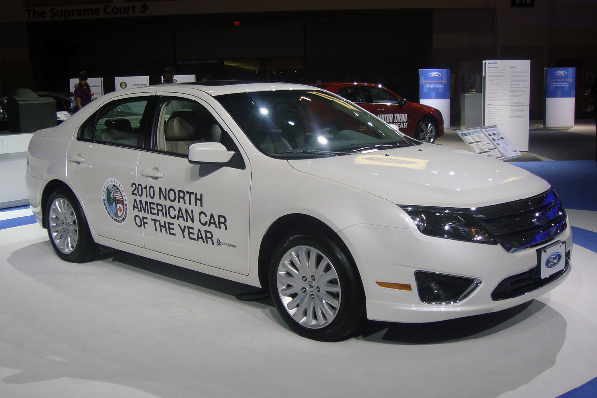 2010 Ford Fusion Hybrid at the 2010 Washington Auto Show. Lateral lettering commemorating Fusion Hybrid selection as 2010 North American Car of the Year Award